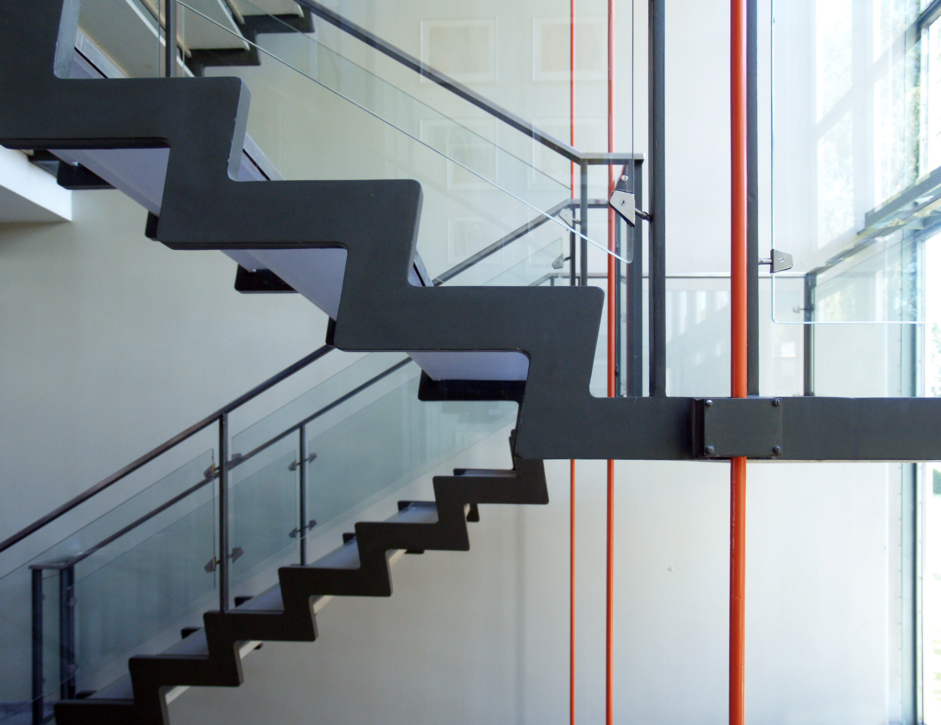 rødovre town hall, 1952-1956. architect: arne jacobsen, 1902-1971. and finally, inescapably, jacobsen's most famous detail: the rødovre central staircase, suspended in orange-red steel rods from the roof construction. the sides are cut from 5 cm (two inch) steel plate, painted a dark grey; the steps are stainless, only a few milimeters, bent and with a rubber top for "grip". it remains as sexy as when it was first revealed and quickly secured jacobsen his first invitation to an architectural competition in germany. jacobsen came well prepared, having already won a fair number of his danish projects in competitions (basically, that is how you get commisions in this country), and the final decade of his career included several large scale projects in germany, two in england (where he had hoped for so much more) and even one in kuwait. more jacobsen.